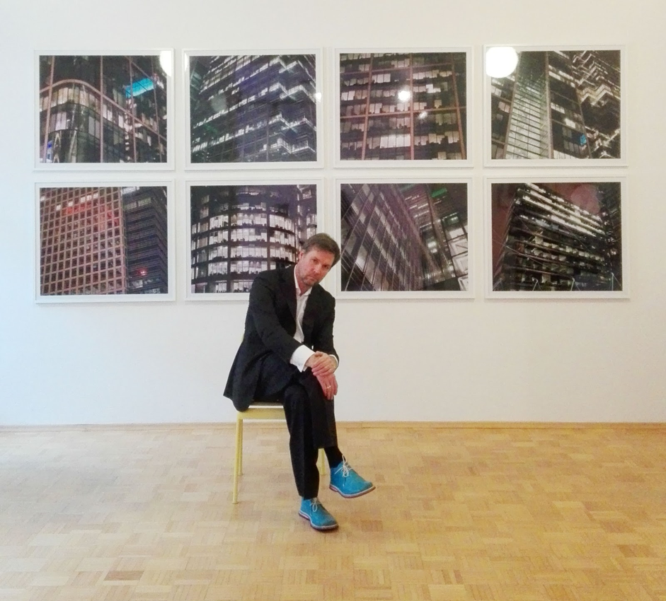 Half Price Exhibition. Andreas Schmidt in his gallery in Berlin-Pankow 2016